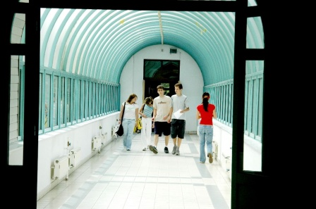 The floor between the two buildings